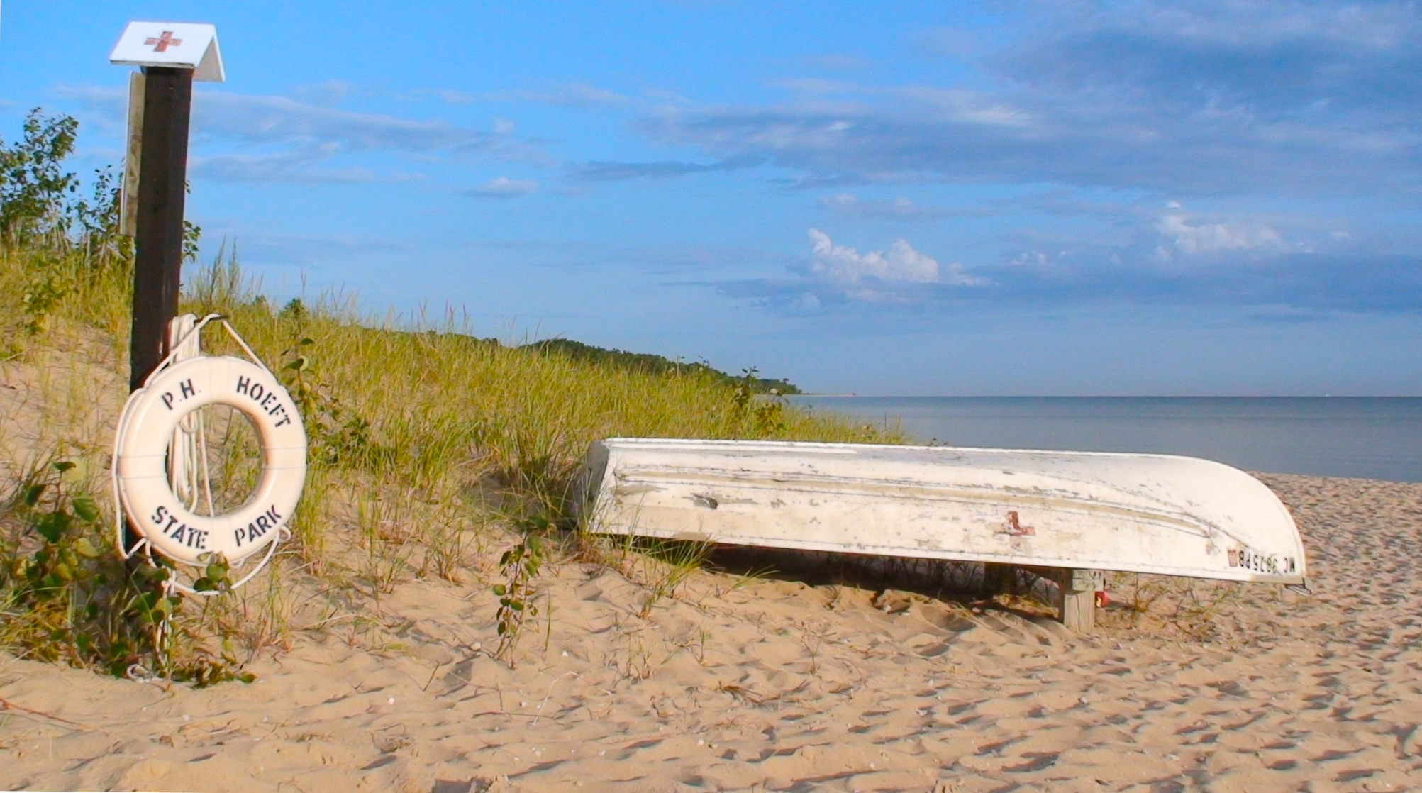 P. H. Hoeft State Park is located 5 miles (8.0 km) north of Rogers City, Michigan USA, on US 23 in Presque Isle County. The Huron Sunrise Trail bicycle path connects the park to Rogers City.